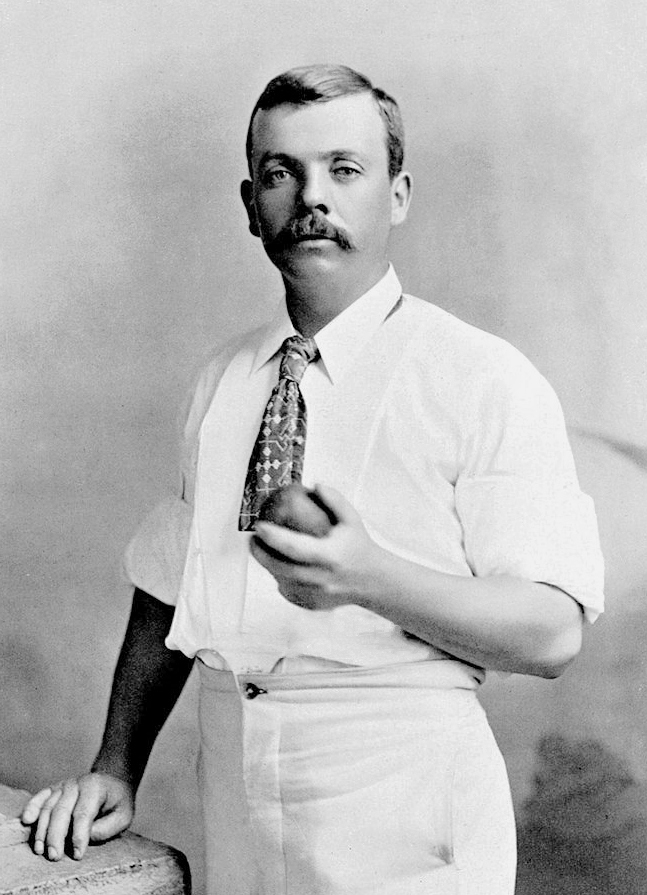 Sport, Cricket, Circa 1895, John Briggs, Lancashire (1879-1900) and England ( 1884-1899)